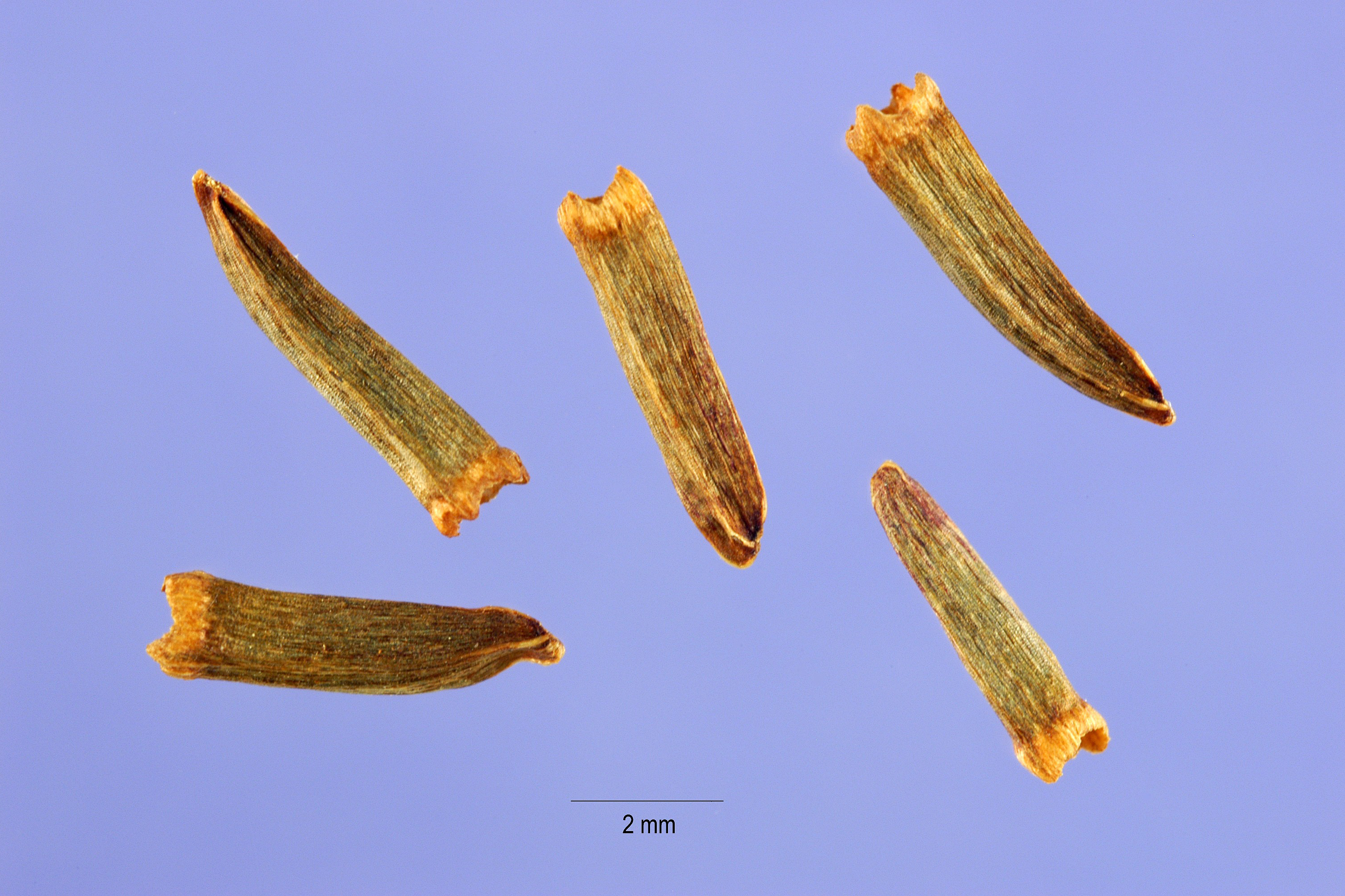 Cutleaf Coneflower (Rudbeckia laciniata) seeds